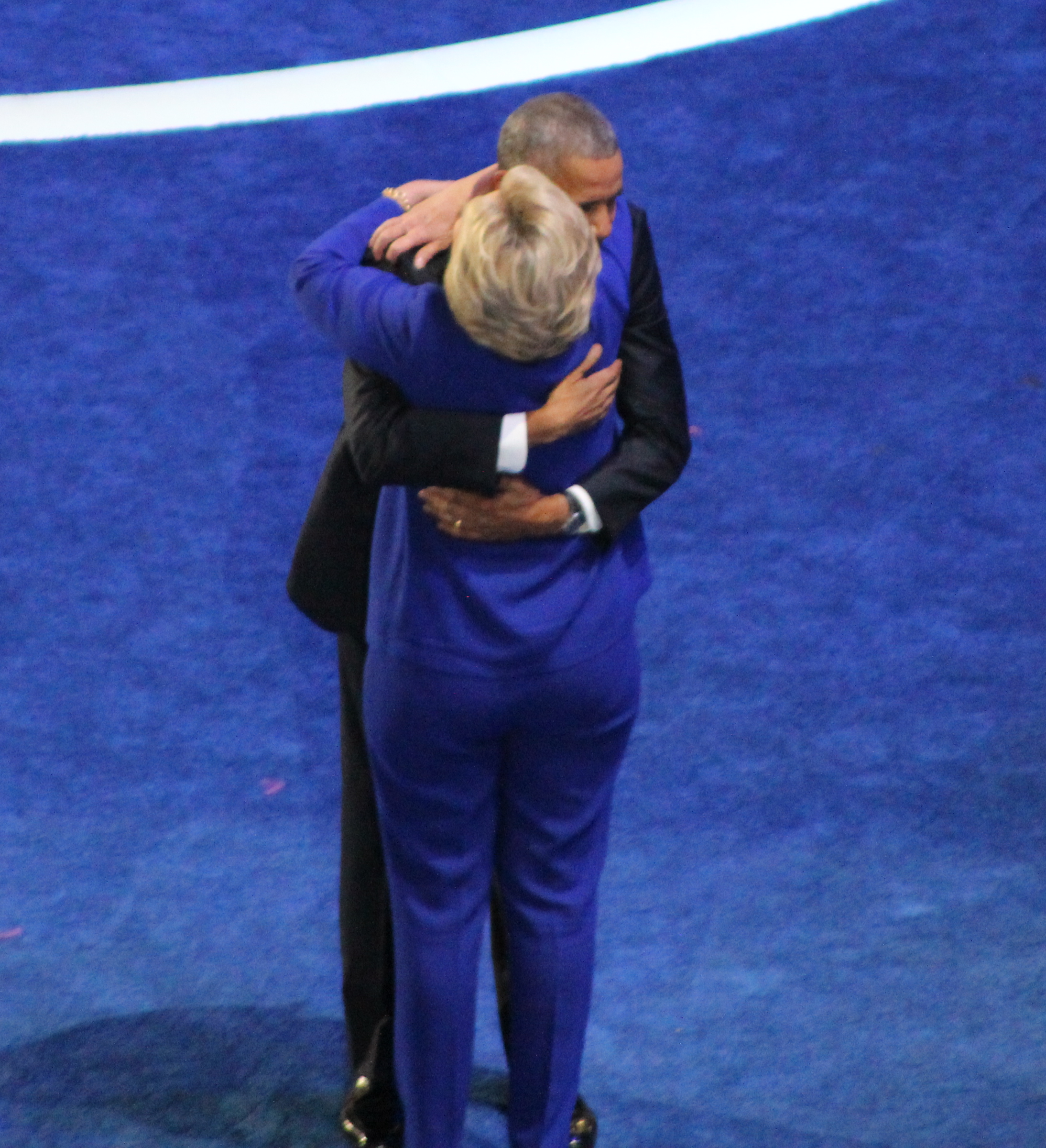 President Barack Obama and Hillary Clinton hug on the 3rd day of the DNC